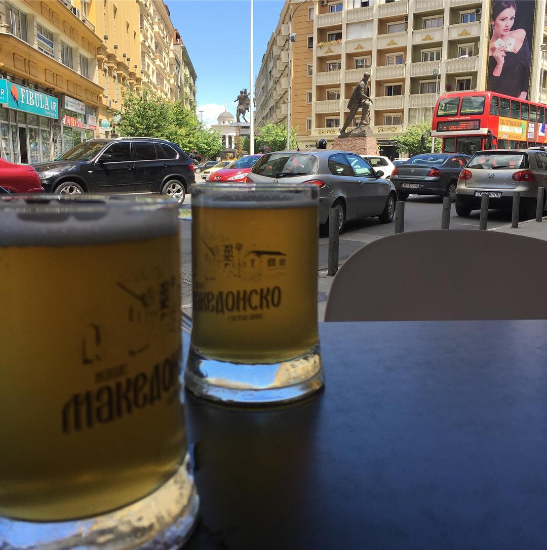 Tradiotional Macedonian Beer